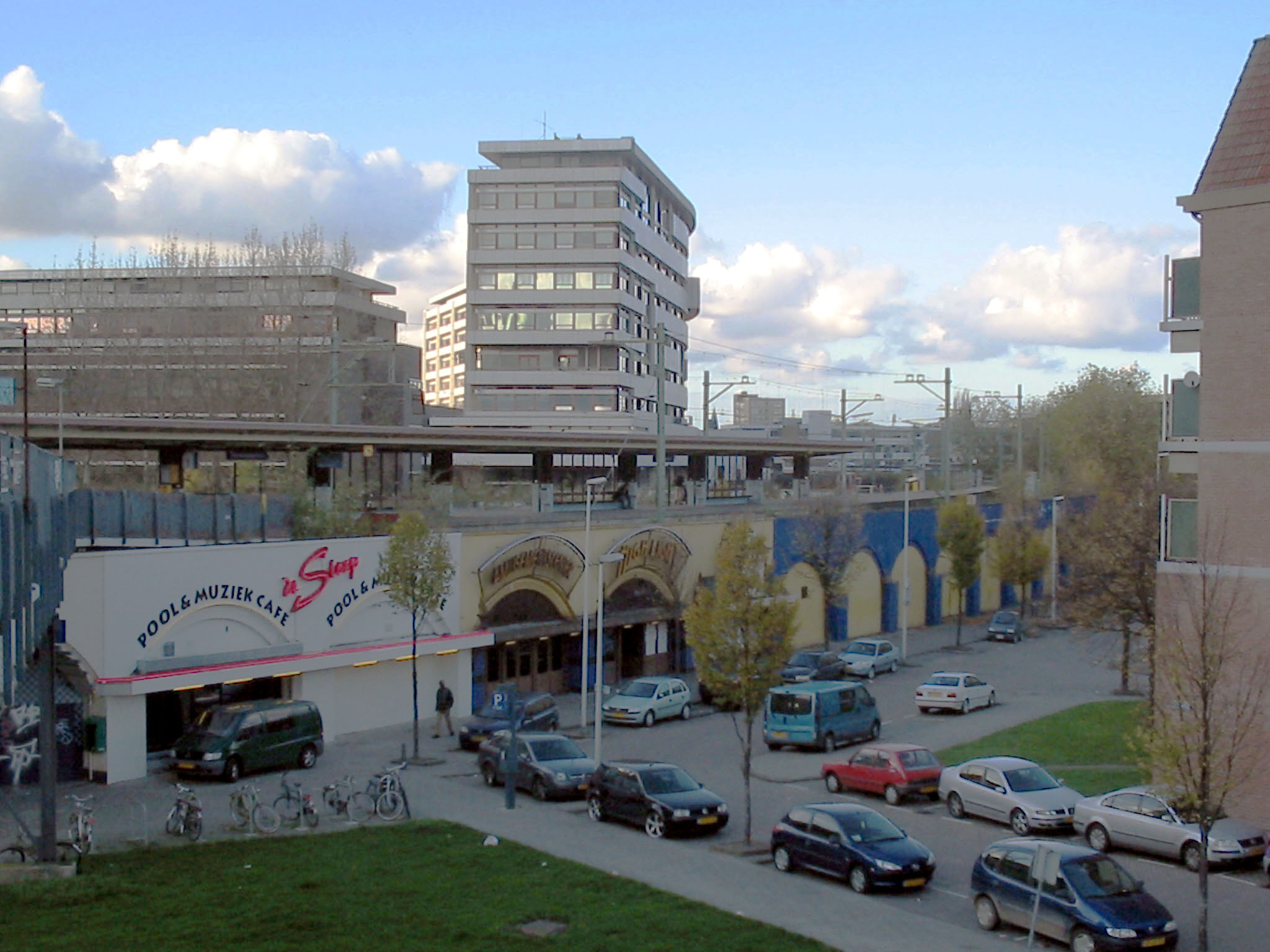 station Hofplein, 13 november 2005